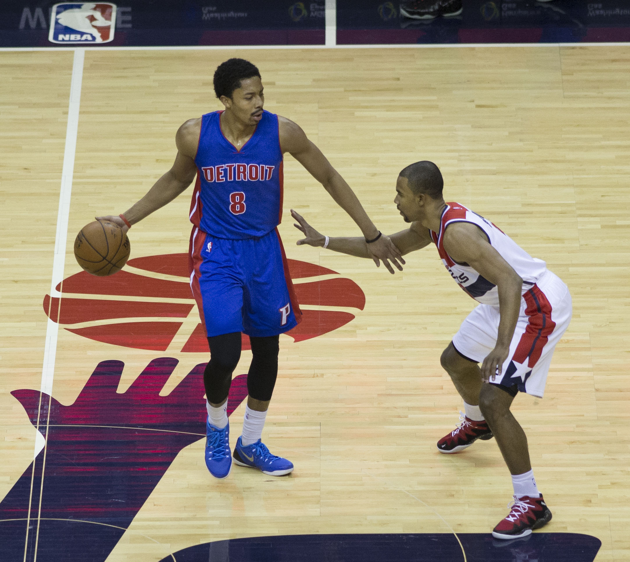 Pistons at Wizards 02/28/15